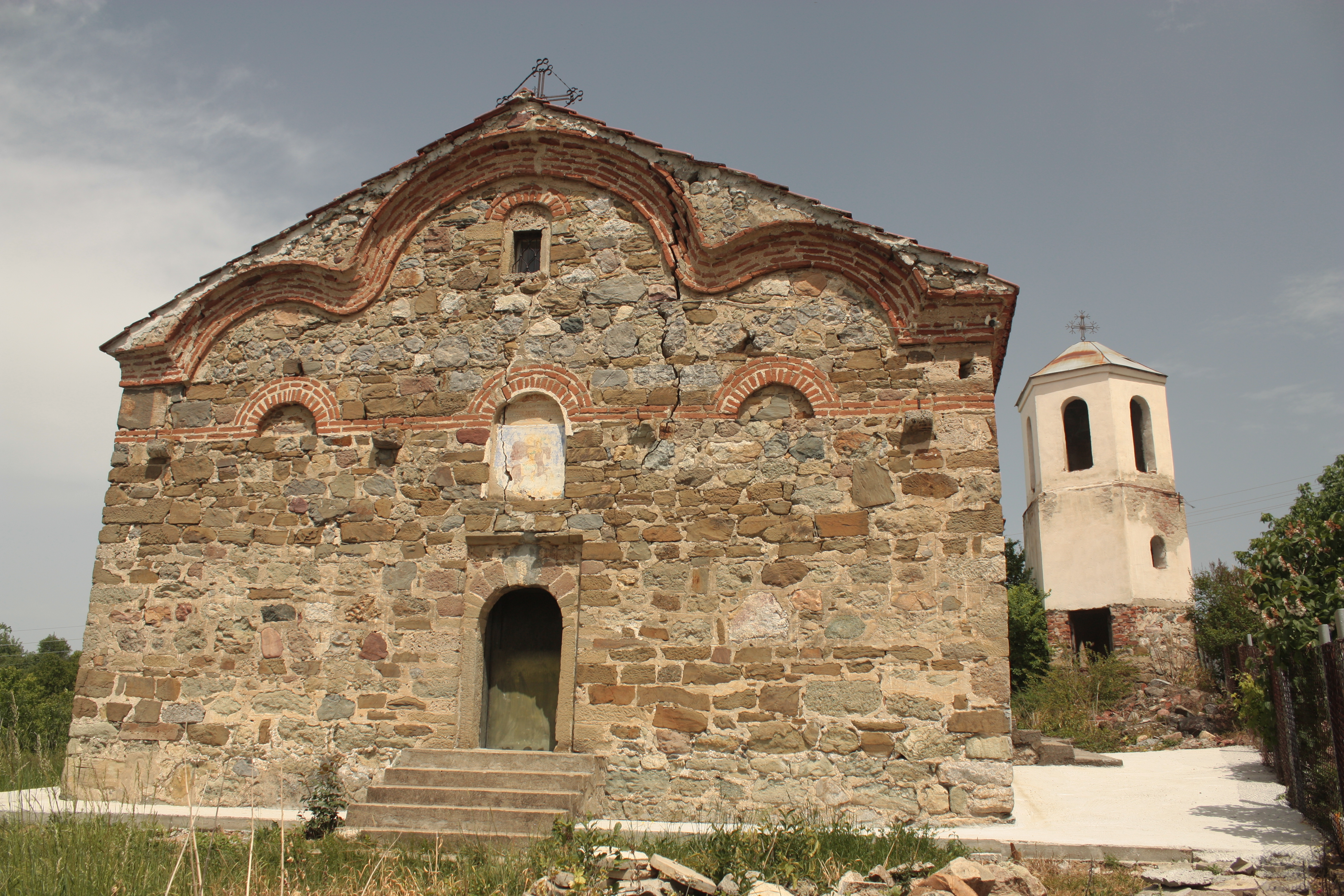 Saint Demetrius church 1862 in Zhedna, Pernik Province, Bulgaria